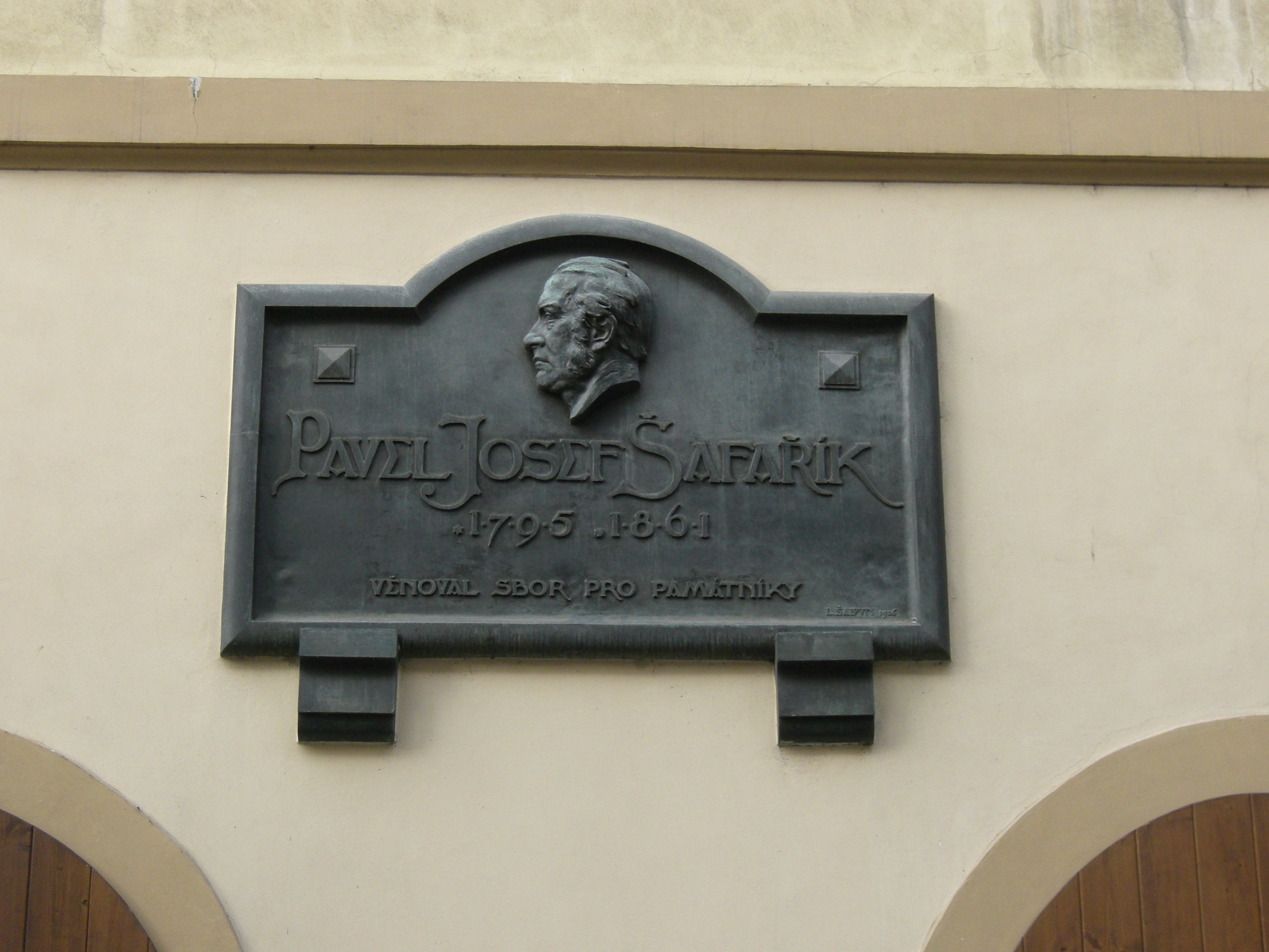 Memorial desk of Pavel Jozef Šafárik in Prague was made by Ladislav Šaloun in 1925